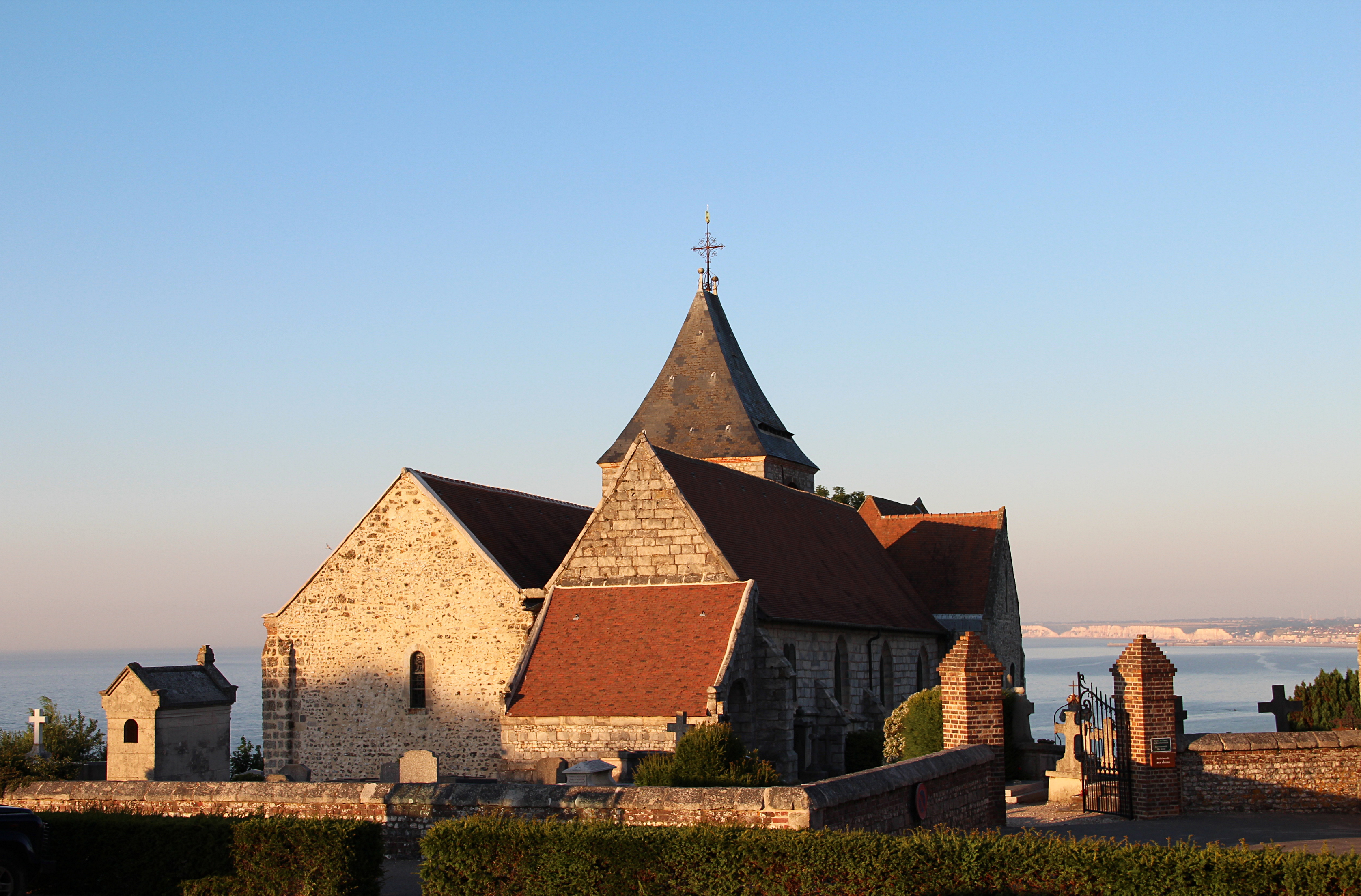 Varengeville-sur-Mer (Seine-Maritime - France), the Church of St. Valery (XII/XIXth centuries) and its marine cemetery.